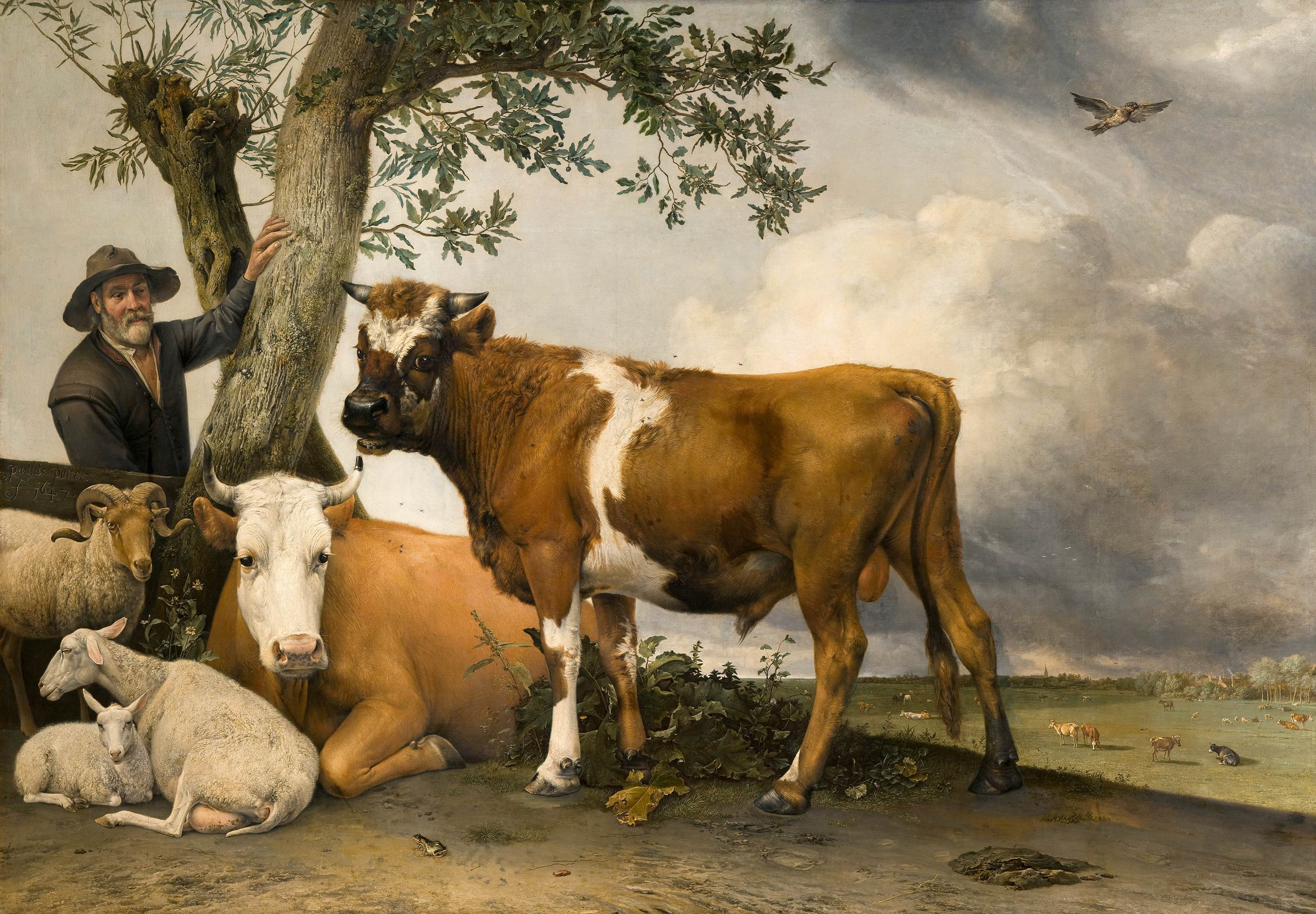 A bull, cow, ram, ewe and lam with herder in a landscape. On the horizon the church of Rijswijk is visible.